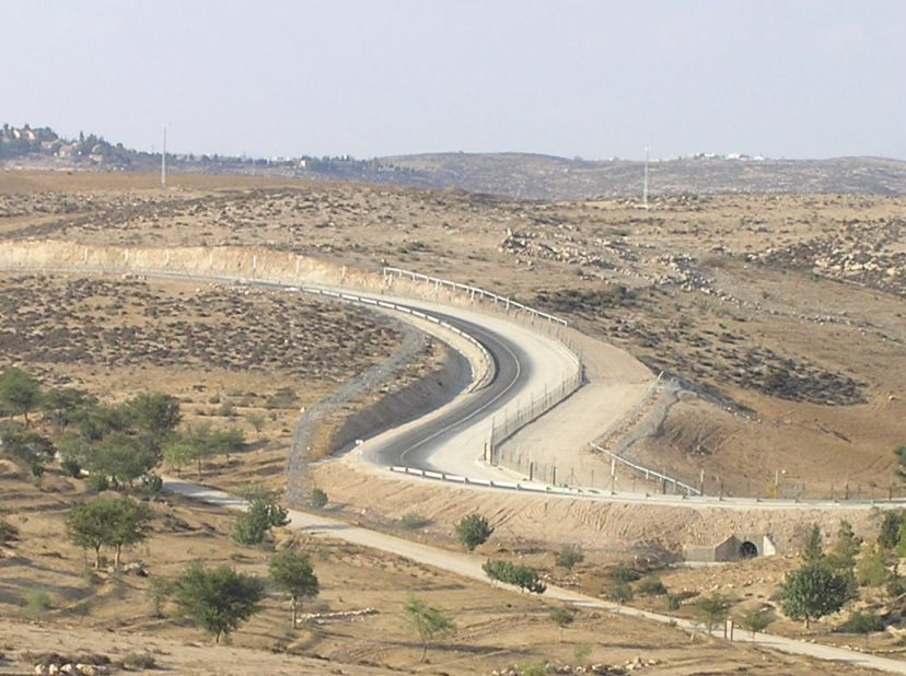 Israeli West Bank Barrier - North east of Meitar, photographed by eman, Sep 2006